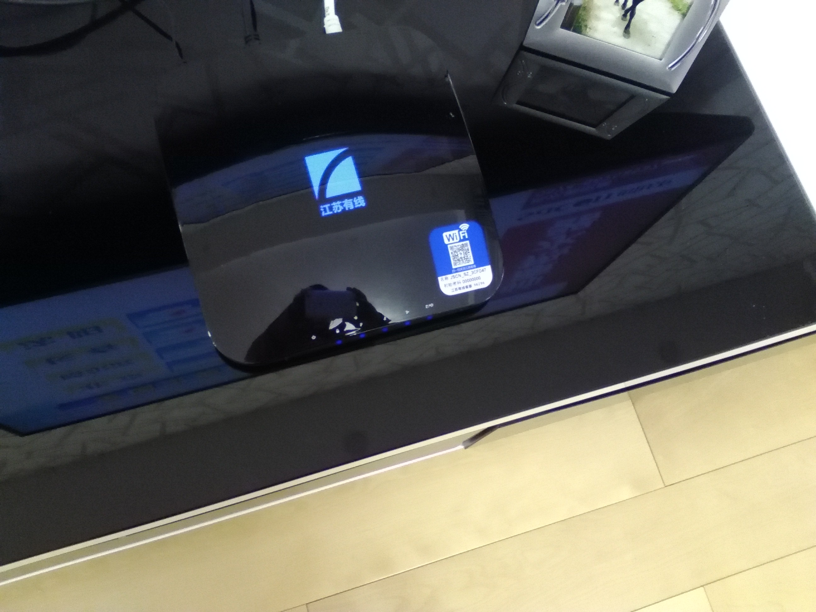 A new style set-top of JSCN (Jiangsu Broadcasting Cable Information Network Corporation Limited), which provides TV and Internet access. 中文（中国大陆）: 江苏有线新型机顶盒，具备看电视和上网功能。